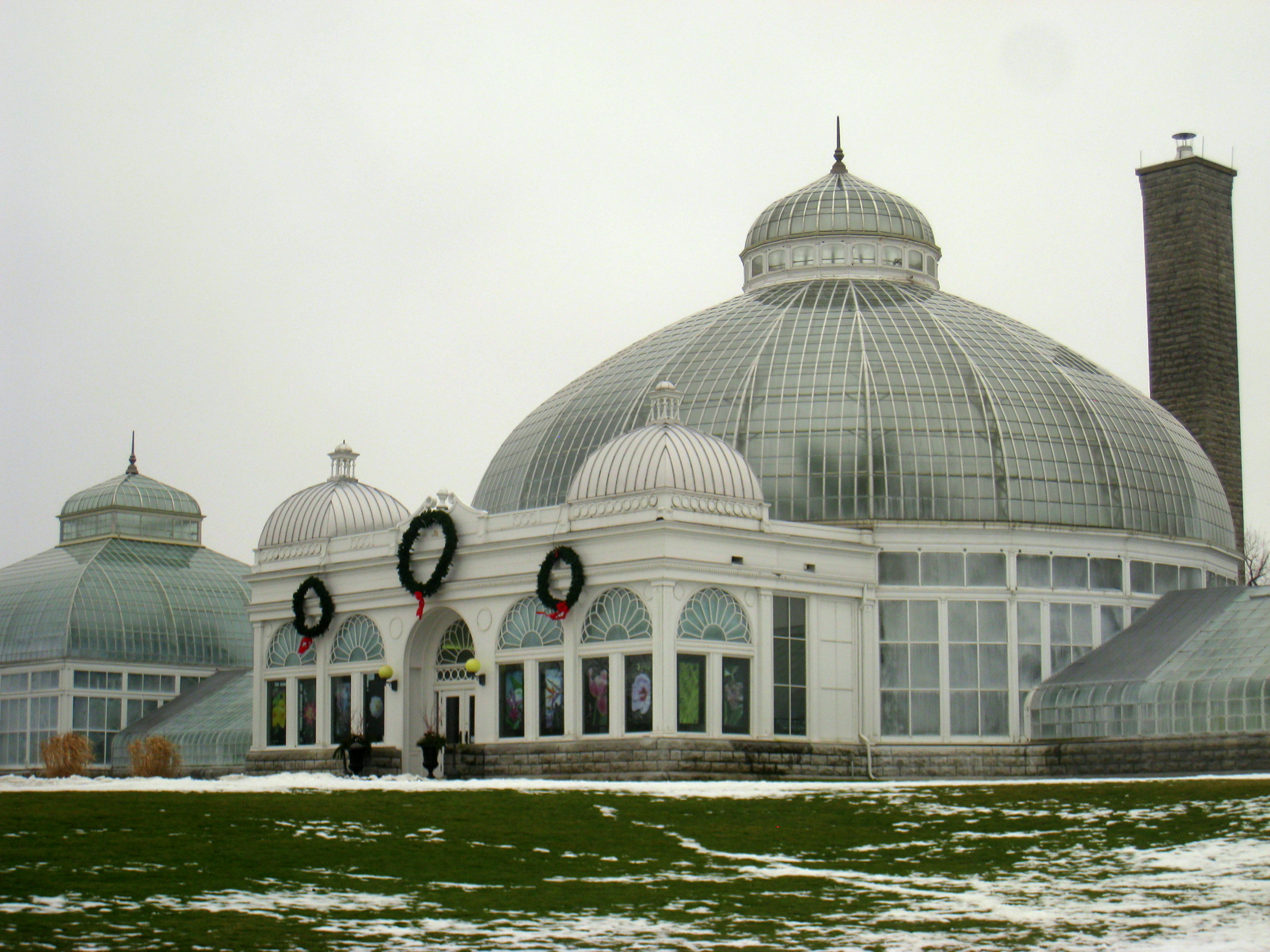 Buffalo and Erie County Botanical Gardens, Buffalo, New York, USA.